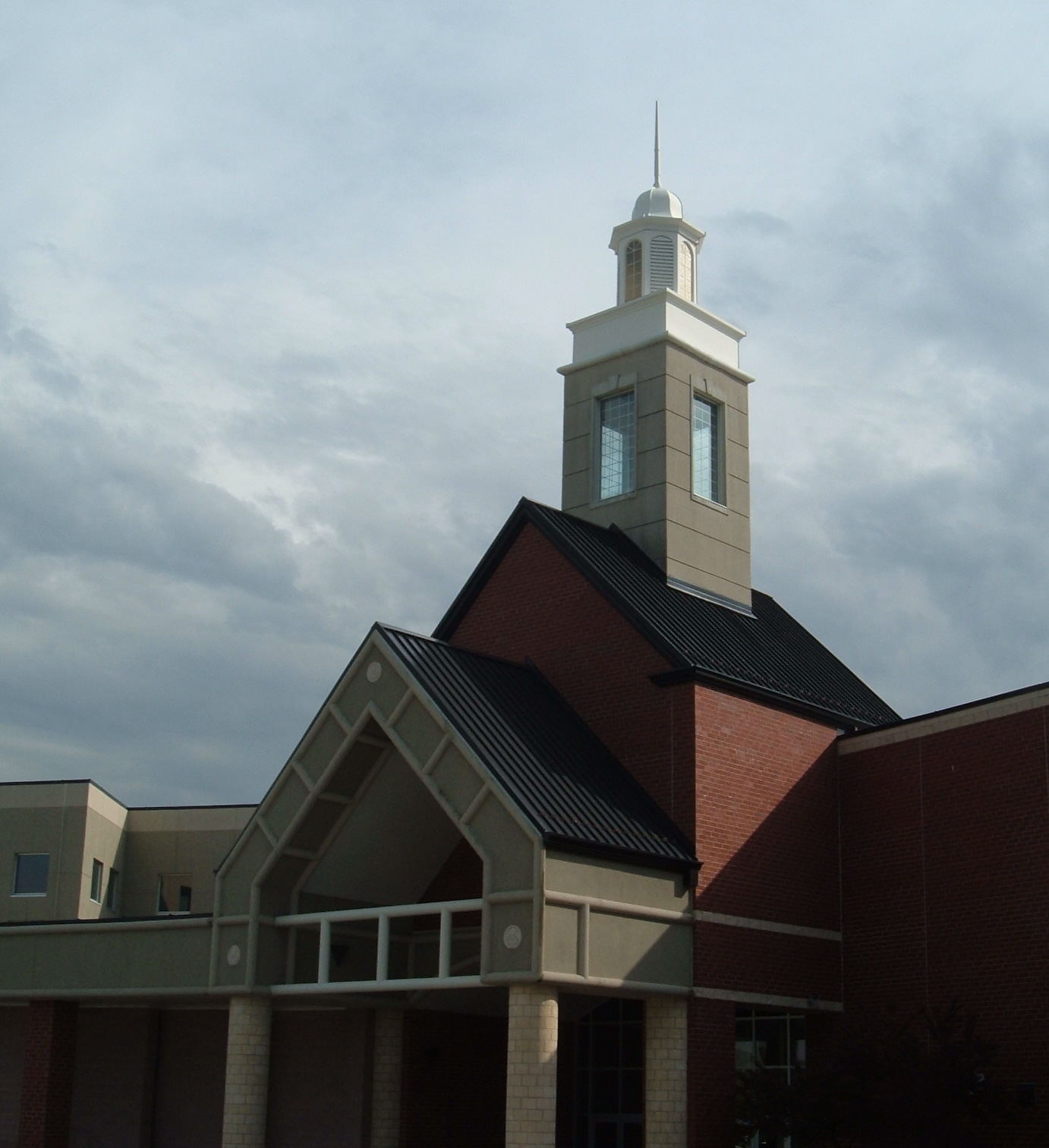 It is the cupola at the front of Montgomery Blair High School.